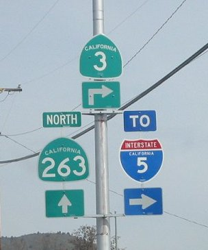 CA 263 trailblazer